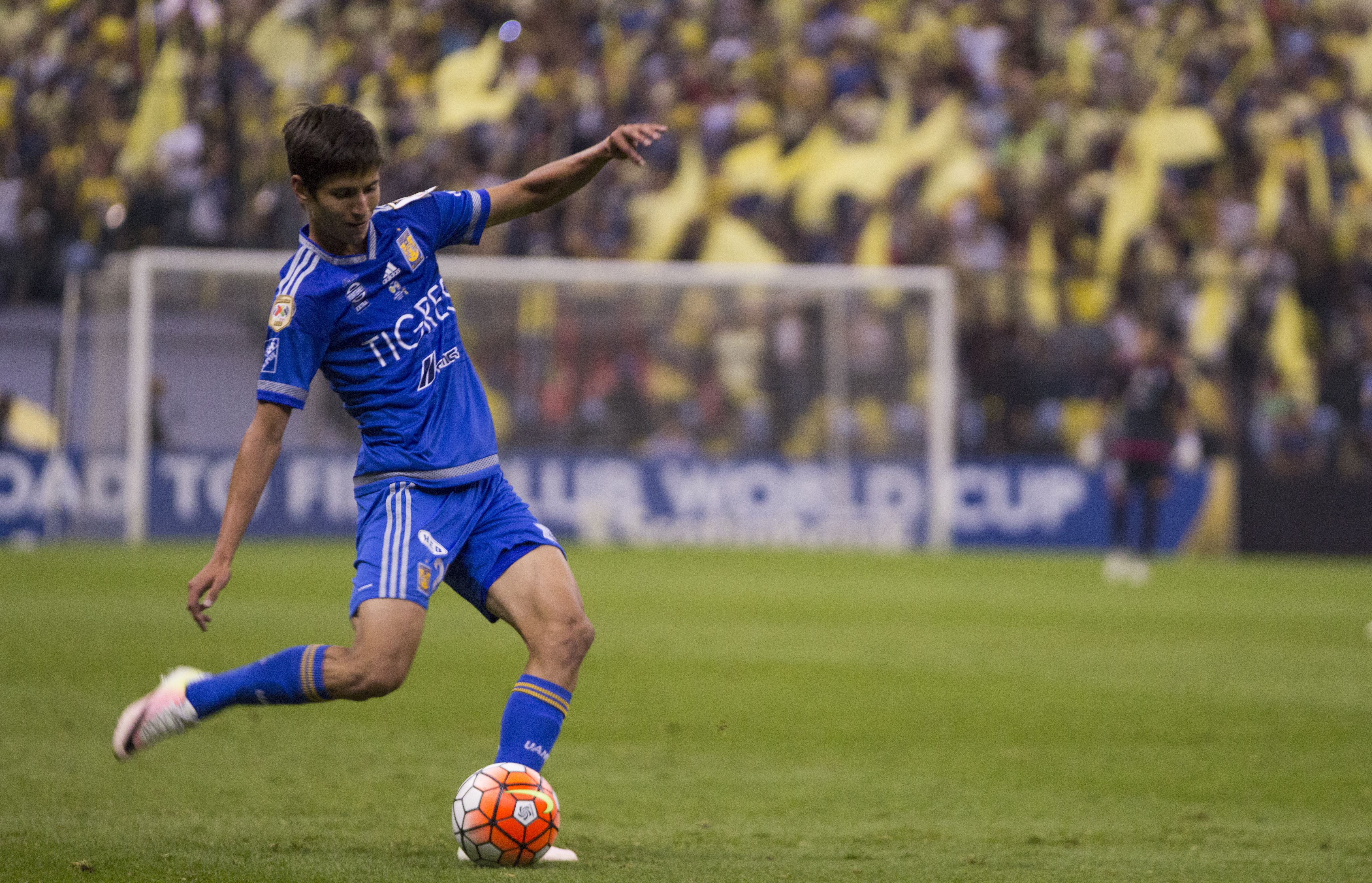 Final CONCACAF 2016